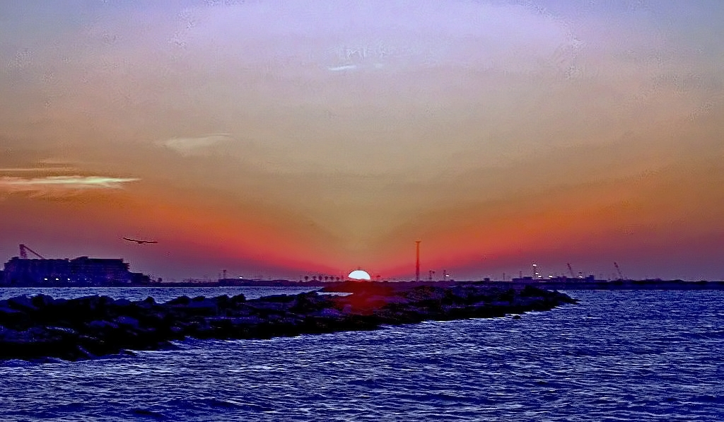 This is just east northeast of Corpus Christi Texas